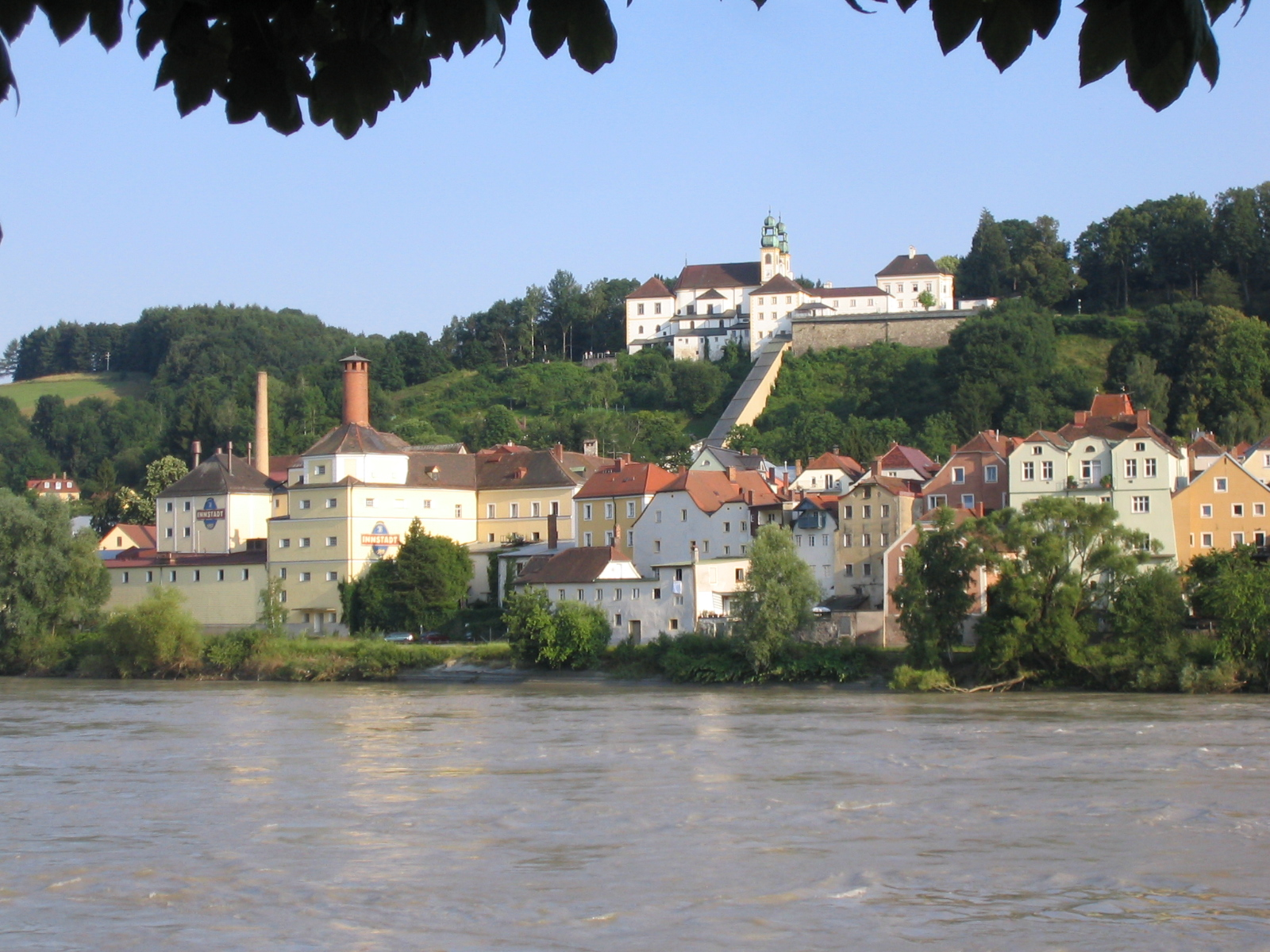 Passau, Innstadt and Mariahilf